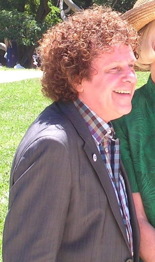 Leo Sayer at an Australia Day ceremony in Canberra.